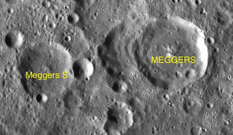 Part of the chart LAC-47 used for the presentation